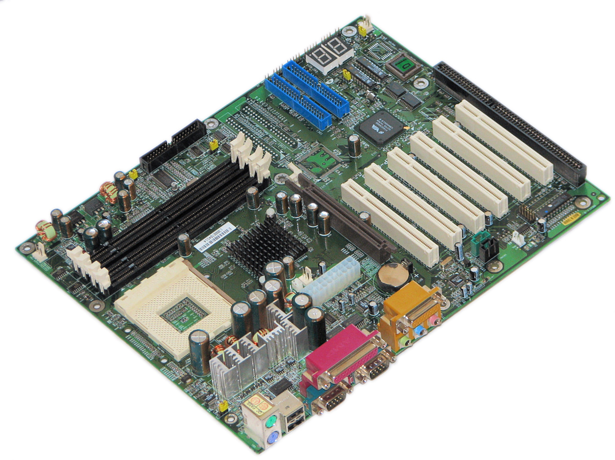 This image shows a mainboard, type: Epox 8KTA3 with VIA KT133A Chipset.